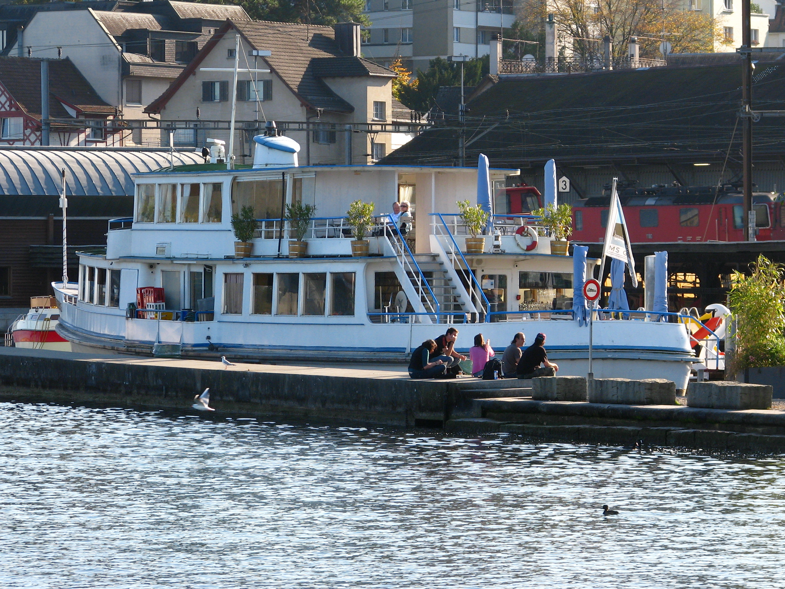 Zürichsee-Schiffahrtsgesellschaft (ZSG) : Former Zürichsee-Schifffahrtsgesellschaft (ZSG) MS Glärnisch, Lake Zürich, Wädenswil harbour.